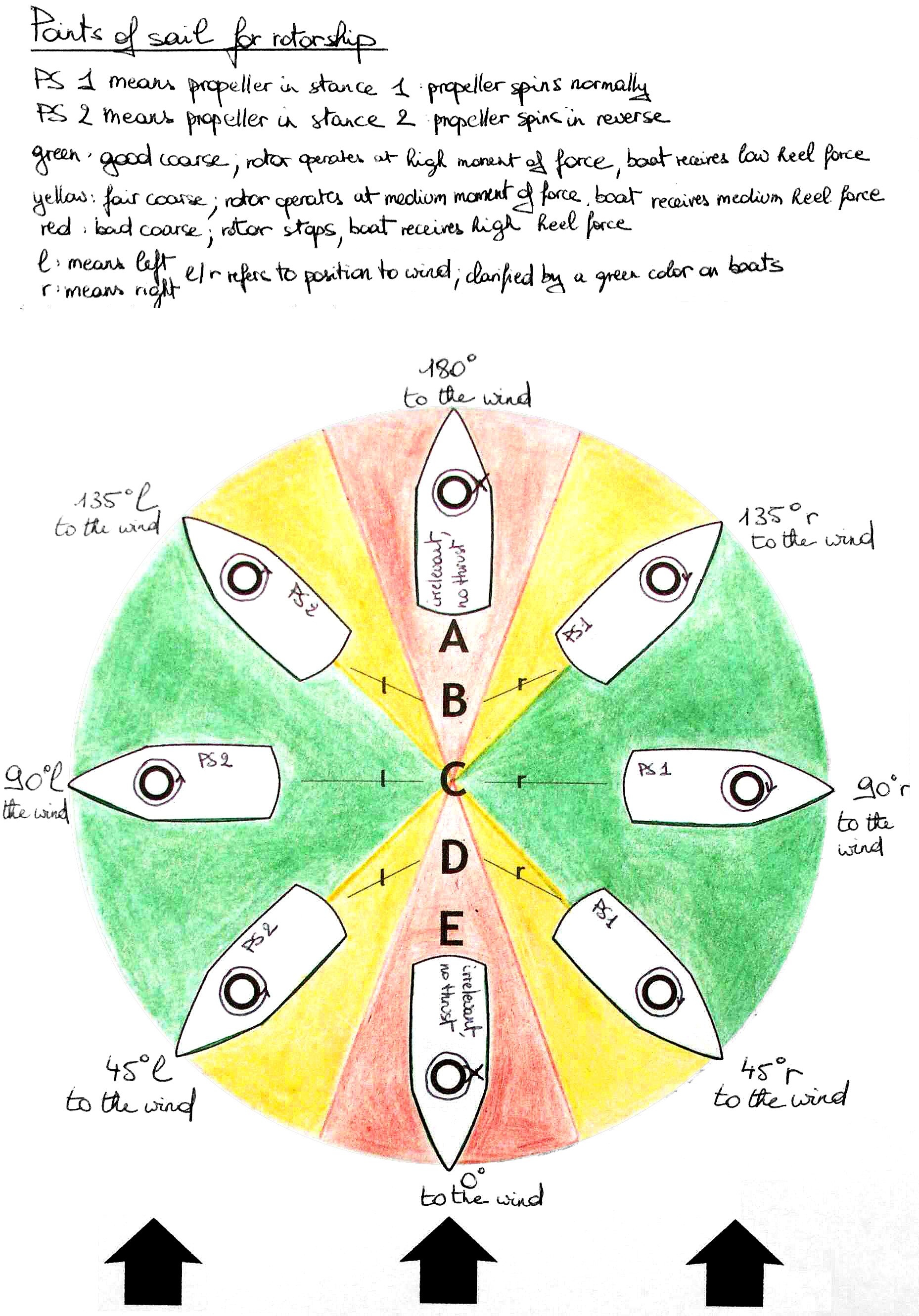 A schematic indicating the points of sail for a rotorship. Some information to make the schematic was obtained at Stephen Thorpe's rotorboat website at link] (archive) A= in irons (or into the wind); 0° B= close hauled; 15-20°r/l C= Beam reach; 90°r/l D= Broad reach; 135°r/l E= Running; 180°. However, this schematic appears to be drawn backwards. The Magnus effect creates a force normal and away from the side rotating away from the wind. For instance, the image at 90 degrees with wind coming from below and rotating clockwise would cause a lift force to the left.